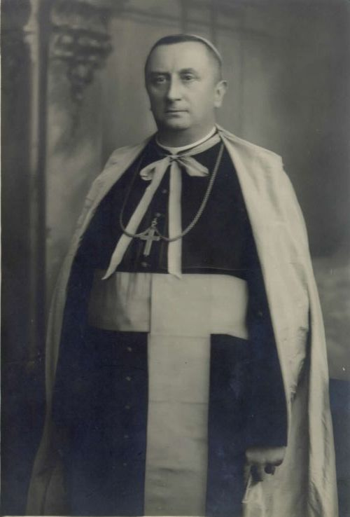 Ivan Tomažič (1876-1949)